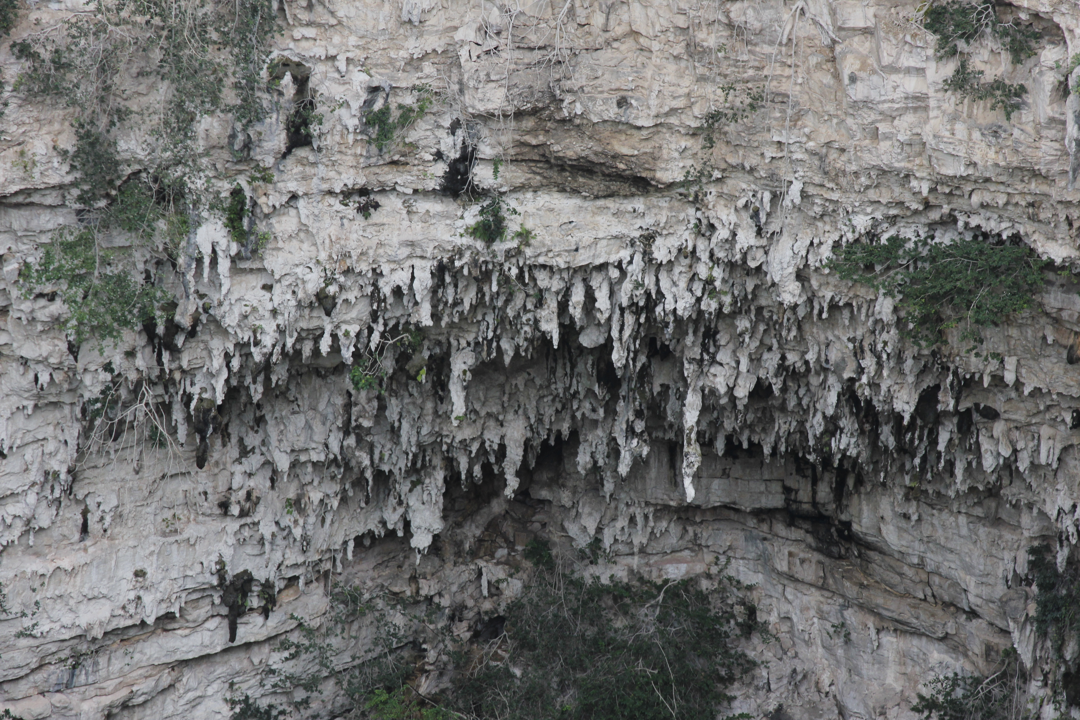 Stalactites that were formed in the interior of the Sima of the Cotorras, Ocozocoautla, Chiapas.